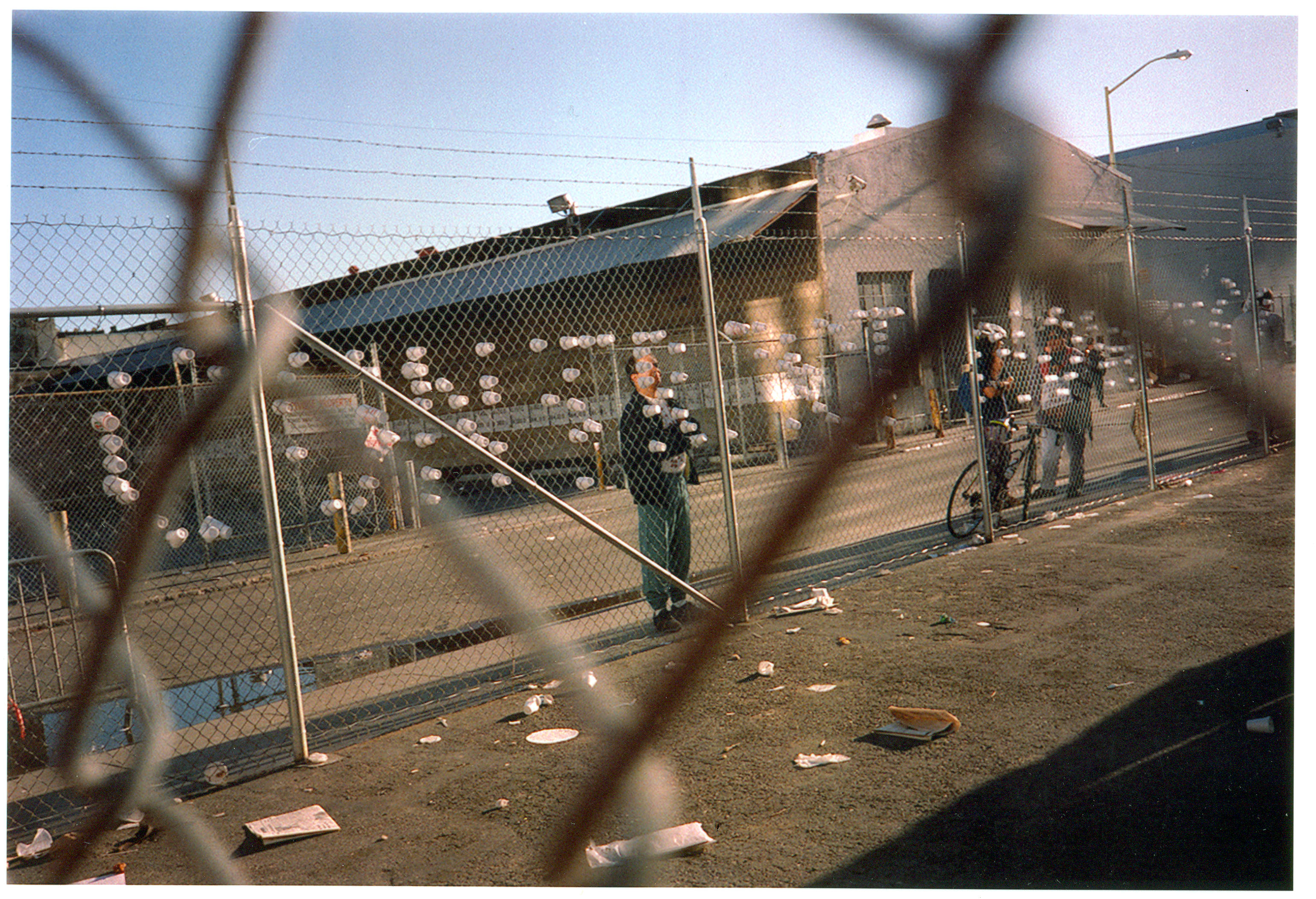 The wire fence behind the San Francisco Chronicle newspaper building creates a backboard for paper cups spelling out "CONTRACT." NOVEMBER 3, 1994 photo by Nancy Wong during the 11 day strike of the San Francisco newspapers, the San Francisco Chronicle and the San Francisco Examiner.